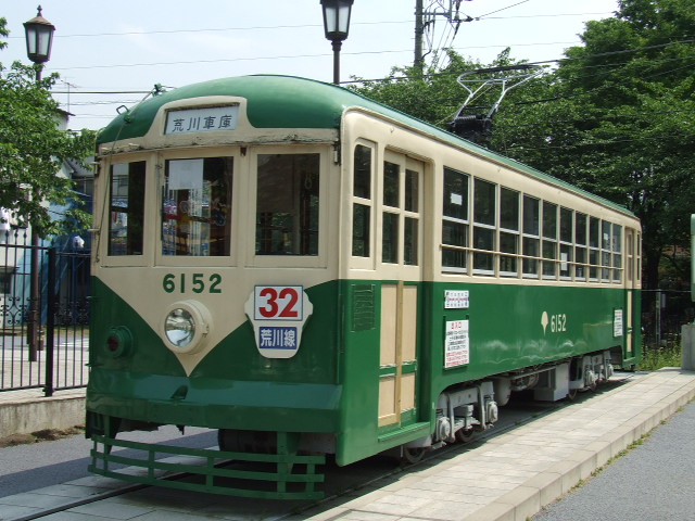 Model 6000-Metropolitan Streetcar-,Tokyo Metropolitan Bureau of Transportation,Japan